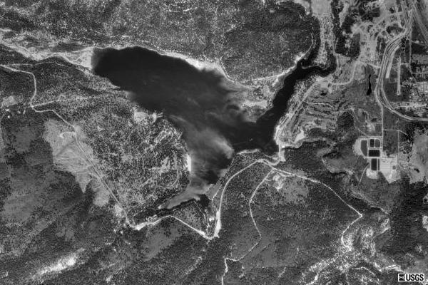 Aerial image of Lake Siskiyou